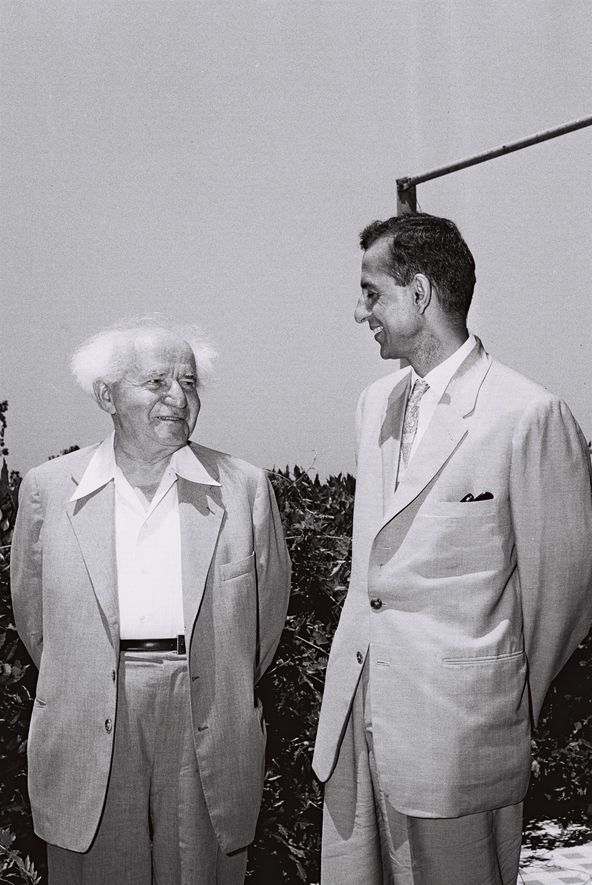 Prime Minister of Nepael Bishweshwar Prasad Koirala meets Prime Minister of Israel David Ben Gurion in Tel Aviv